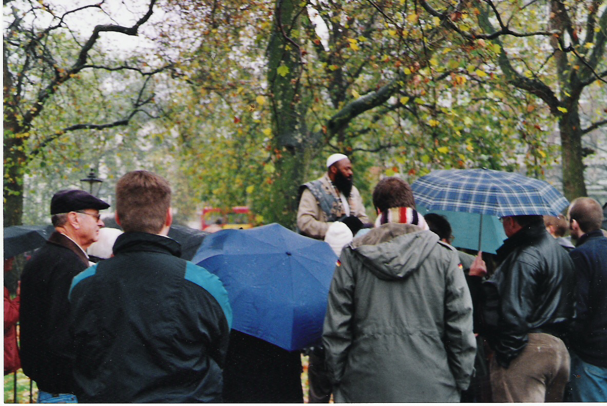 Speakers' Corner, Hyde Park, London. Photo Chris Nyborg, November 2004